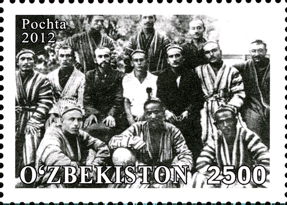 Stamps of Uzbekistan, 2012